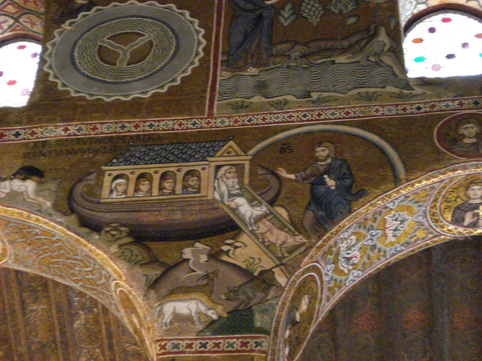 Noah's testament with God